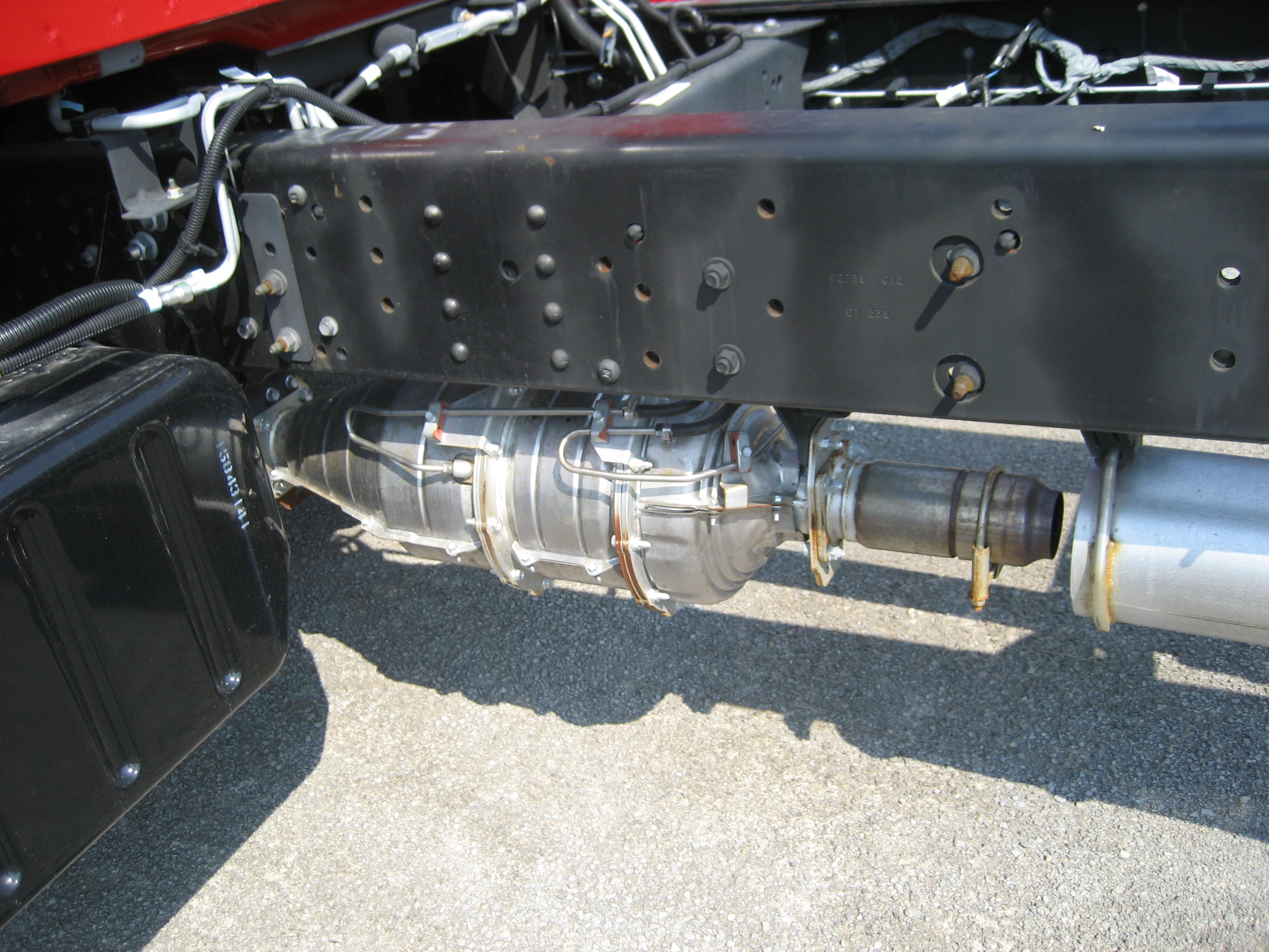 Cordierite Diesel Particulate Filter on a 2008 C7500 GM Class 7 Truck with a 7.8 Inline 6 Isuzu Diesel.